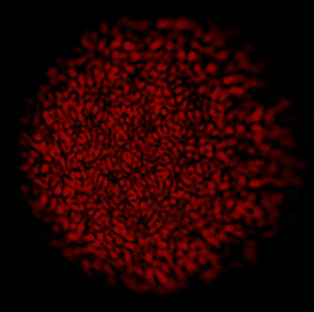 Speckle